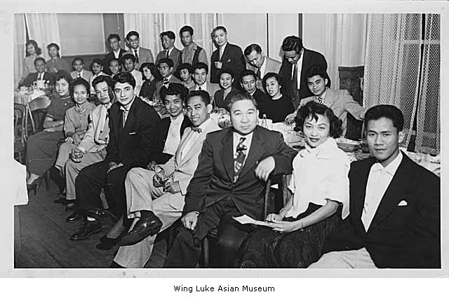 The Filipino Student Association at the University of Washington, comprised of about 30 American-born and Philippine-born students, enjoy a tribute dinner sponsored by the Philippine Consul.